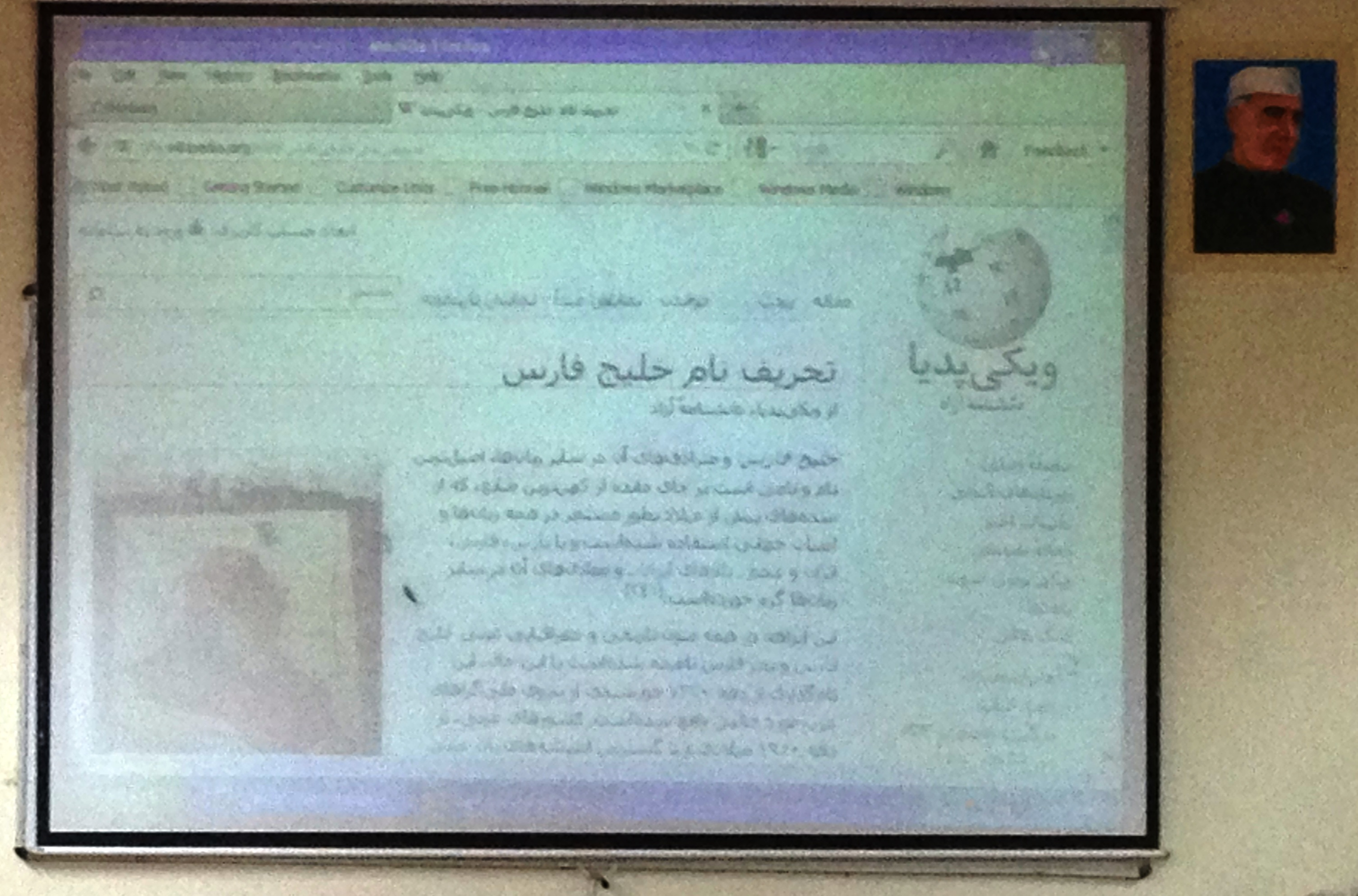 Wikipedia Persian gulf page is lectured in A seminar at university of JNU INDIA